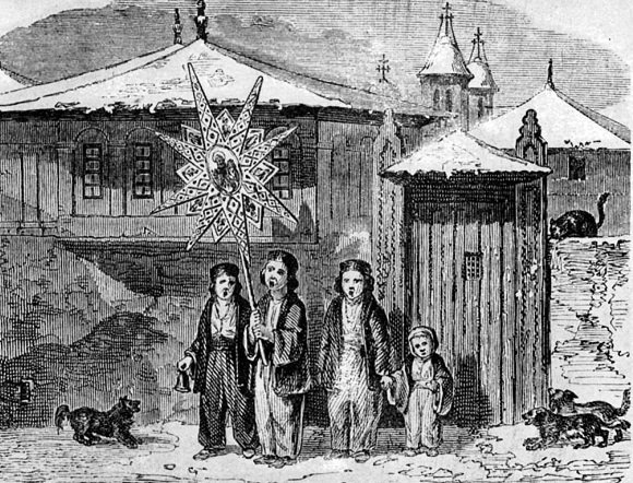 Child singers carrying a star with icon of a saint. Bucharest, 1842.